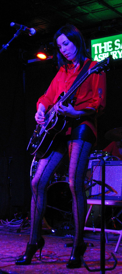 Lunic at The Saint in Asbury Park, NJ 04132012 pic#1